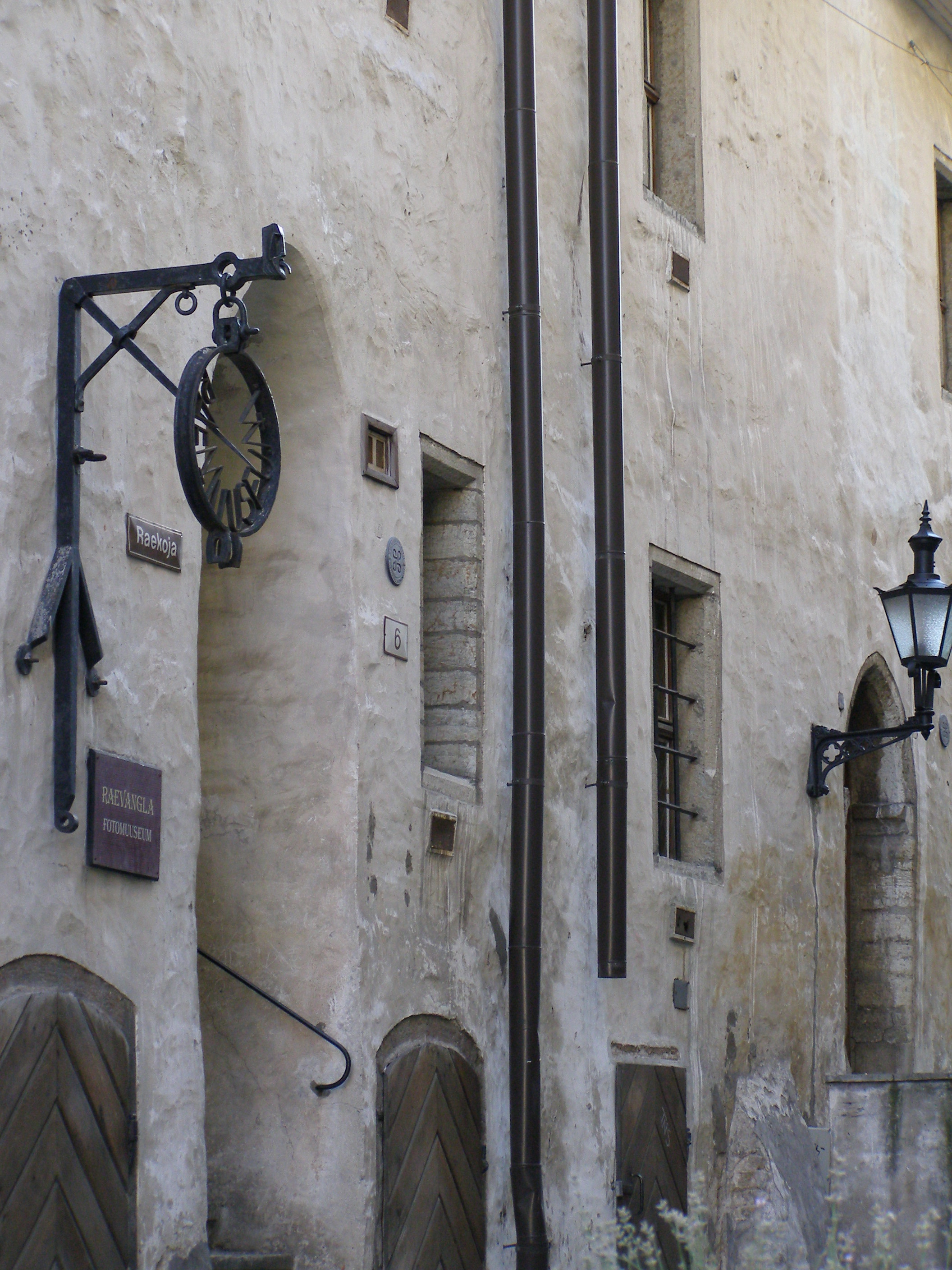 House facade in Tallinn (detail) Hausfassade in Tallinn (Detail)